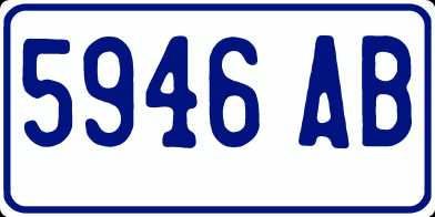 License plate from Jamaica